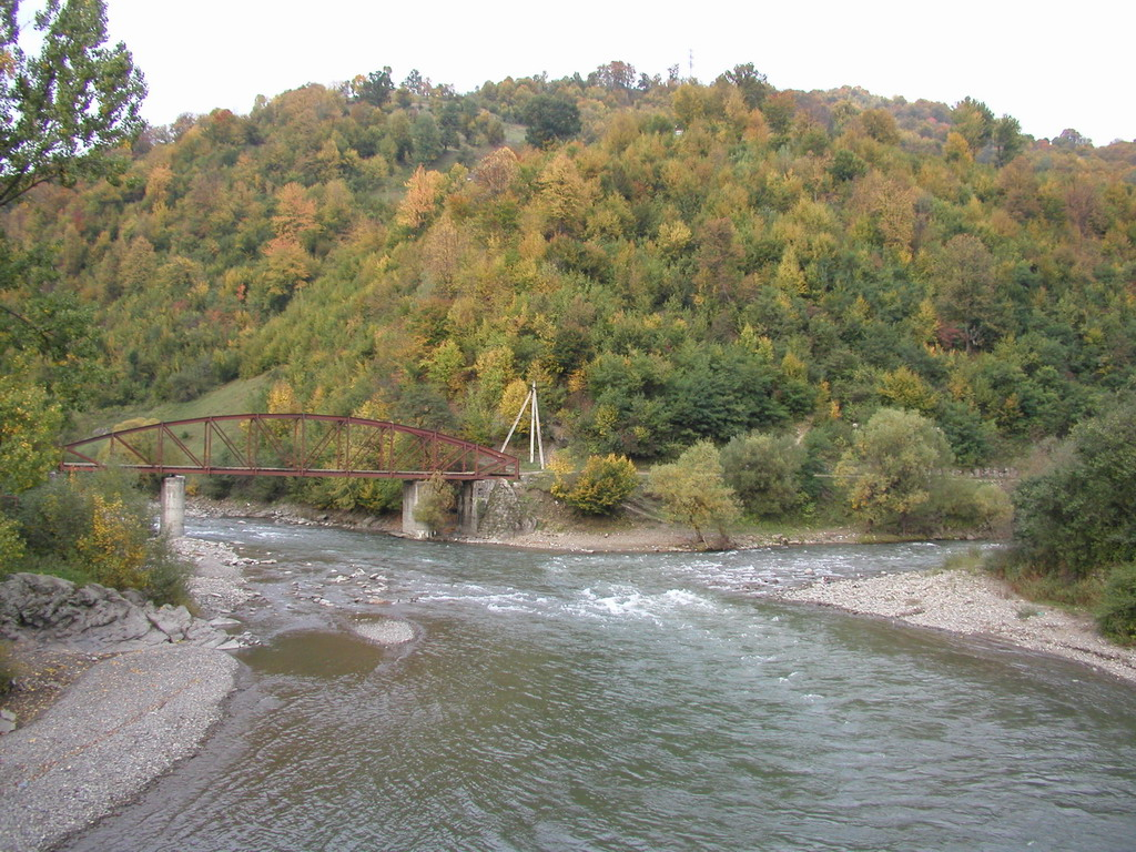 The Tysa River near Rakhiv (Transcarpathian region, Ukraine)